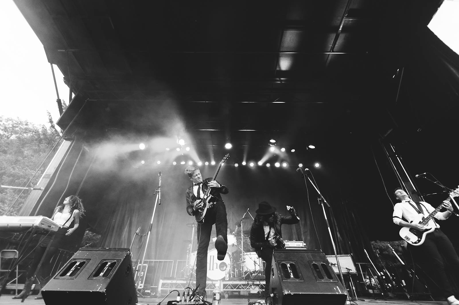 Head of the Herd Playing Squamish Valley Music Festival. Photo by Derek Robitaille